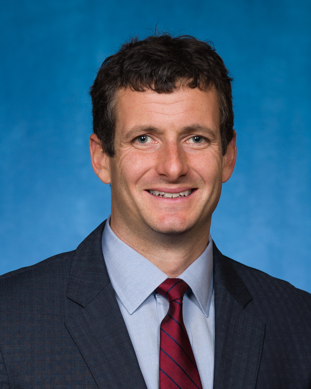 Trey Hollingsworth image